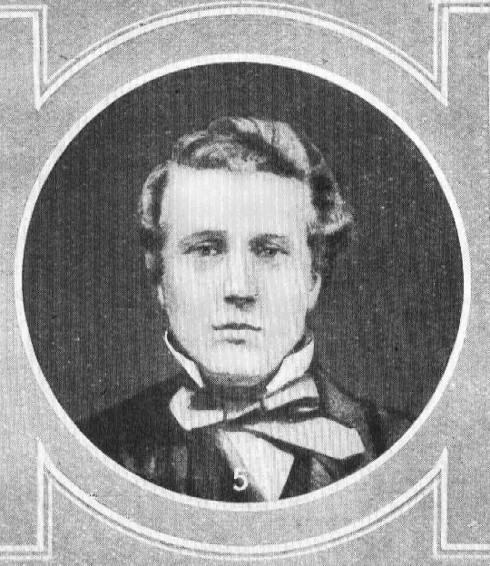 From The Jubilee Story of The China Inland Mission by Marshall Broomhall 1915; London, Morgan & Scott